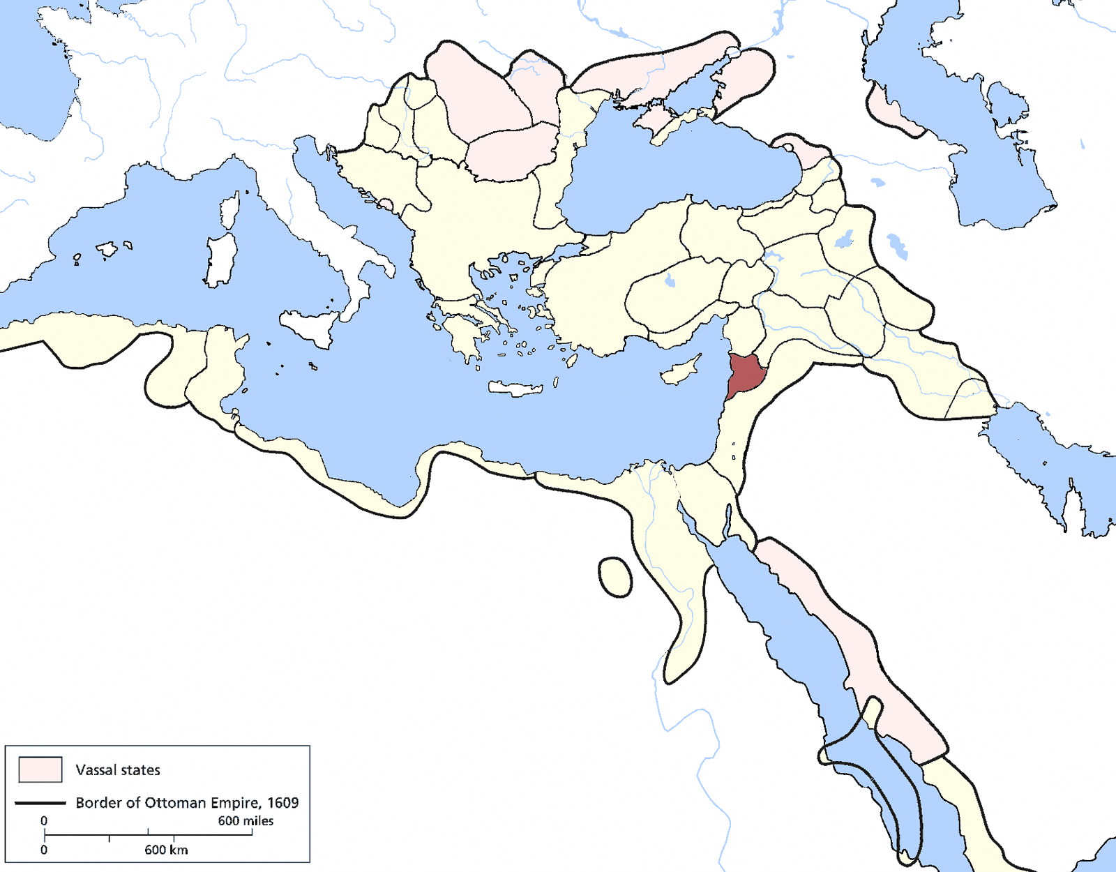 Tripoli Eyalet, Ottoman Empire (1609). Source: Encyclopedia of the Ottoman Empire at Google Books By Gábor Ágoston, Bruce Alan Masters